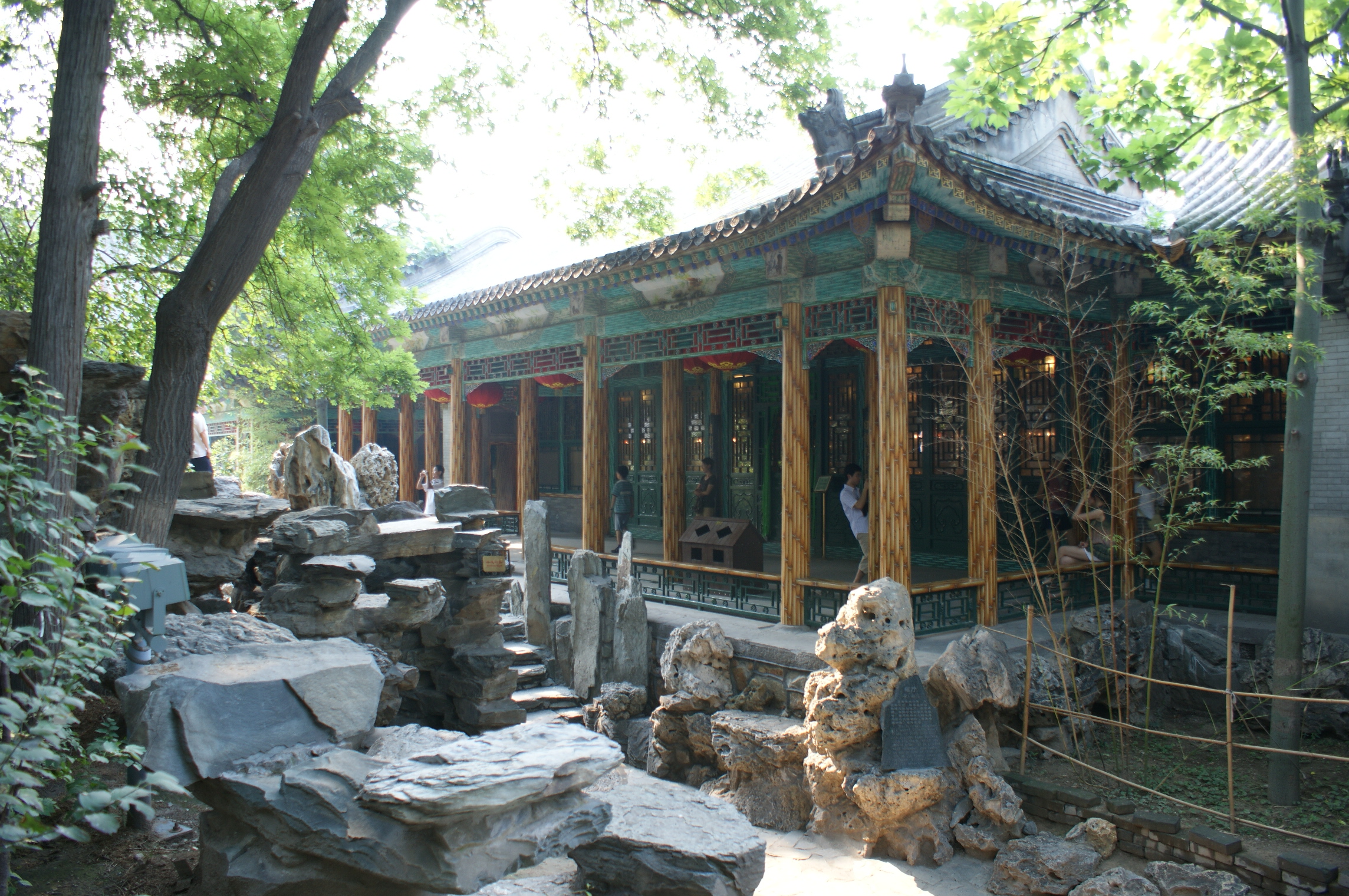 The Gong Wang Fu (Prince Gong Mansion) in Beijing